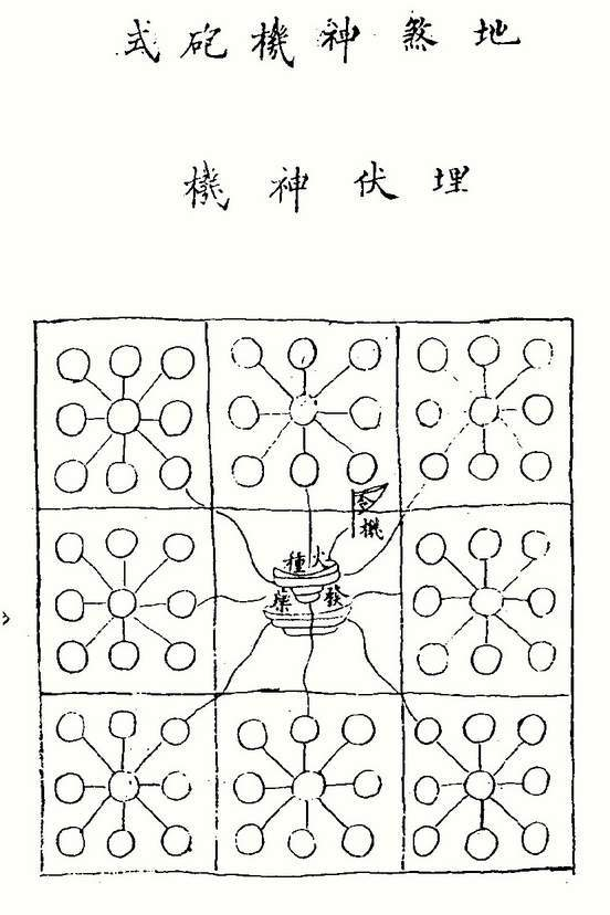 landmine in Huolongjing